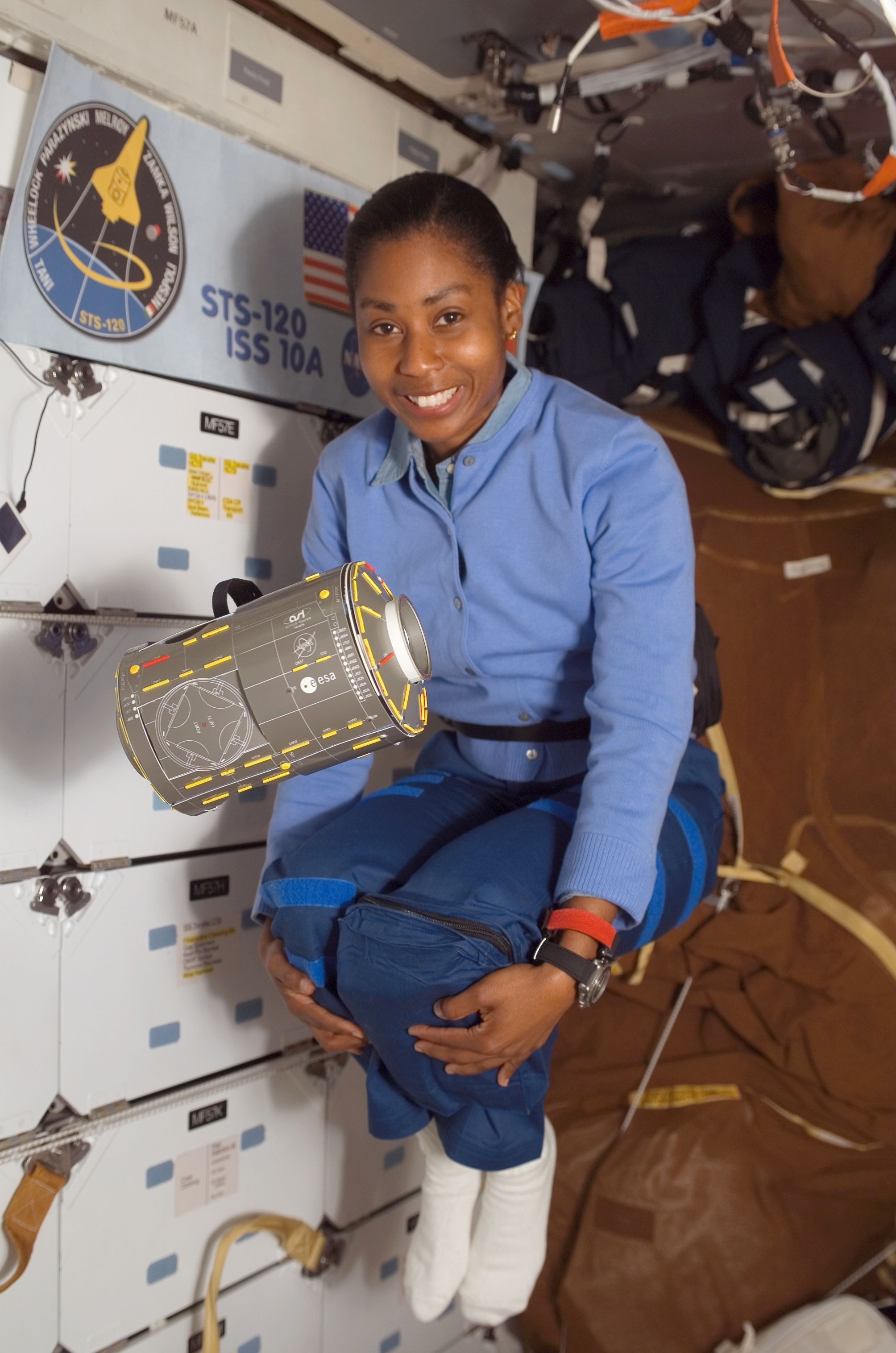 Astronaut Stephanie Wilson, STS-120 mission specialist, and a model of the Harmony node float freely on the middeck of Space Shuttle Discovery while docked with the International Space Station.